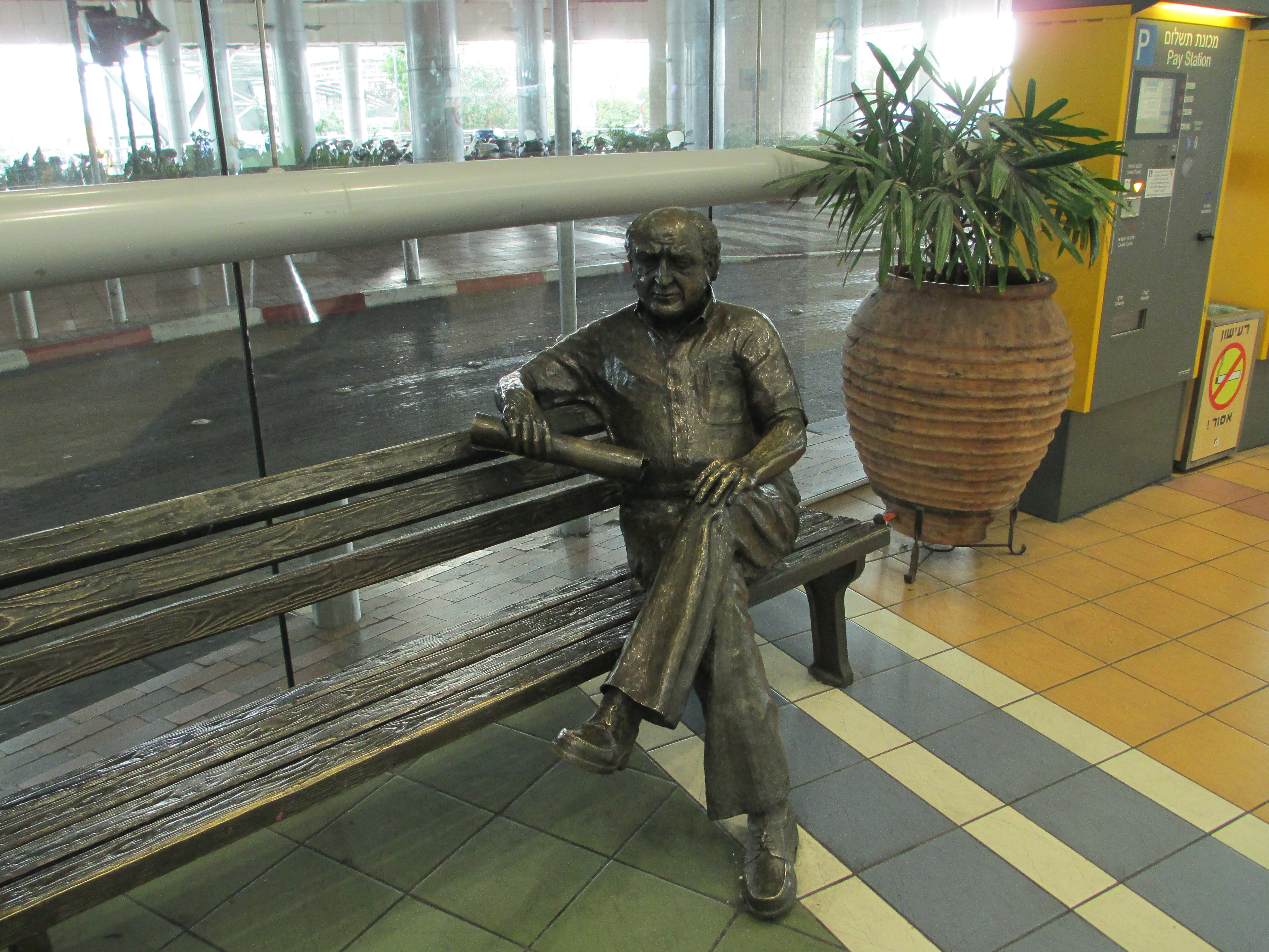 sculpture of david azrieli in azrieli mall in tel aviv פסל של דוד עזריאלי בקניון עזריאלי. הפסל הוא אסף ליפשיץ